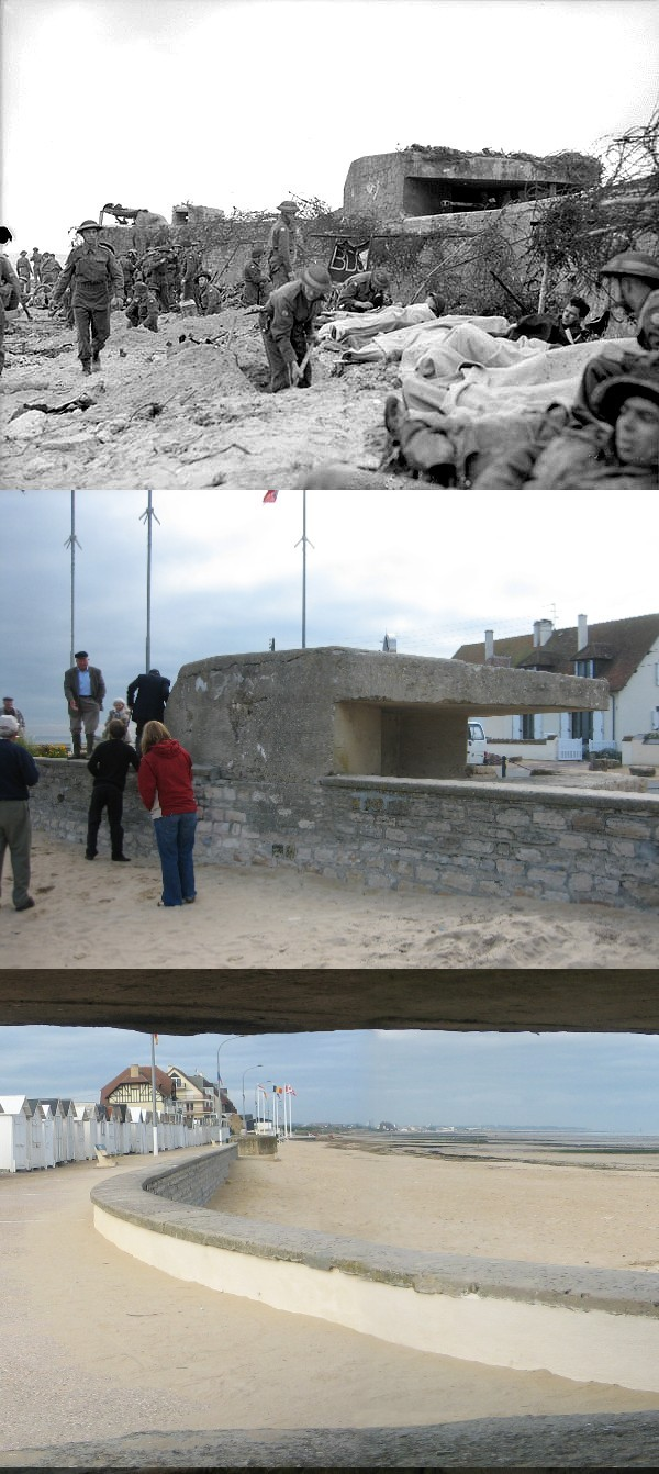 Composite, made by me, of Image:Juno_wounded2.jpg (shown below) and pictures I took of the same bunker on Juno Beach in September 2006. Top image was taken on D-Day and shows Canadian wounded next to an Atlantic Wall bunker. Middle shows the same bunker in 2006 from roughly the same angle, with the same shell hit visible on both structures; note how far the sand has risen up the seawall. The gentleman in the jacket and white shirt standing to the left of the bunker is French and claimed to have been present on D-Day. He claimed that the bunker then held a 50mm anti-tank gun, and said that a gun on display in nearby Courseulles-sur-Mer near the Juno Beach Centre was in fact the gun removed from this bunker. Bottom shows the view from inside the bunker. Note that the bunker doesn't point out to sea, but down the beach to allow for enfilading fire. You can see that any soldiers who sheltered behind the seawall would have still been completely exposed to this gun. thumb|centre|Original Photo thumb|centre|Another photo of the same area. thumb|centre|Photo from a bit further west - the bunker is visible in the background. Good illustration of the height of the seawall at the time.